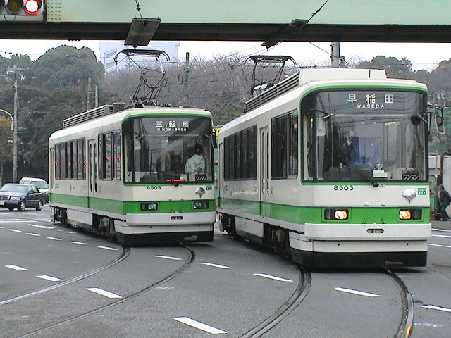 Toei 8500 series tramcars 8503 and 8505 on the Toden Arakawa Line in Tokyo